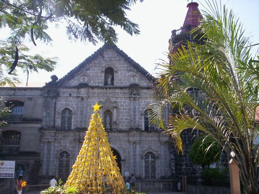 Sta. Monica de Angat Church